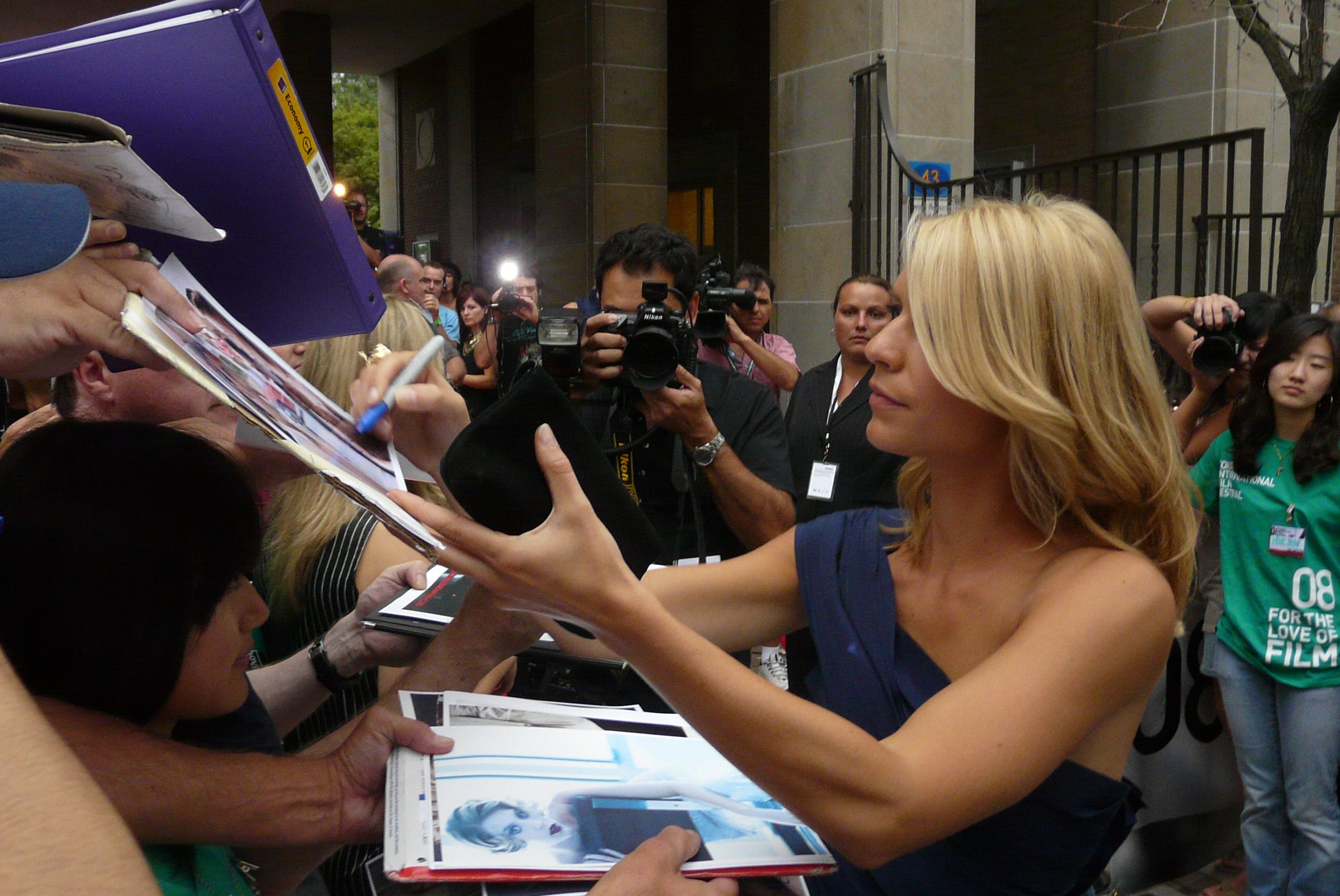 Claire Danes arrives at Tiff '08 Premiere of Me and Orson Welles See even more great pics at